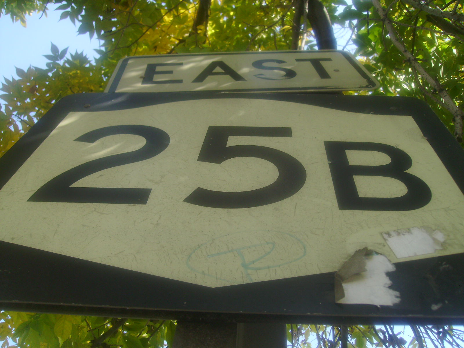 A shield along New York State Route 25B (Hillside Avenue) that is beginning to fade.